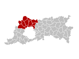 Brabantse Kouters, Flemish Brabant